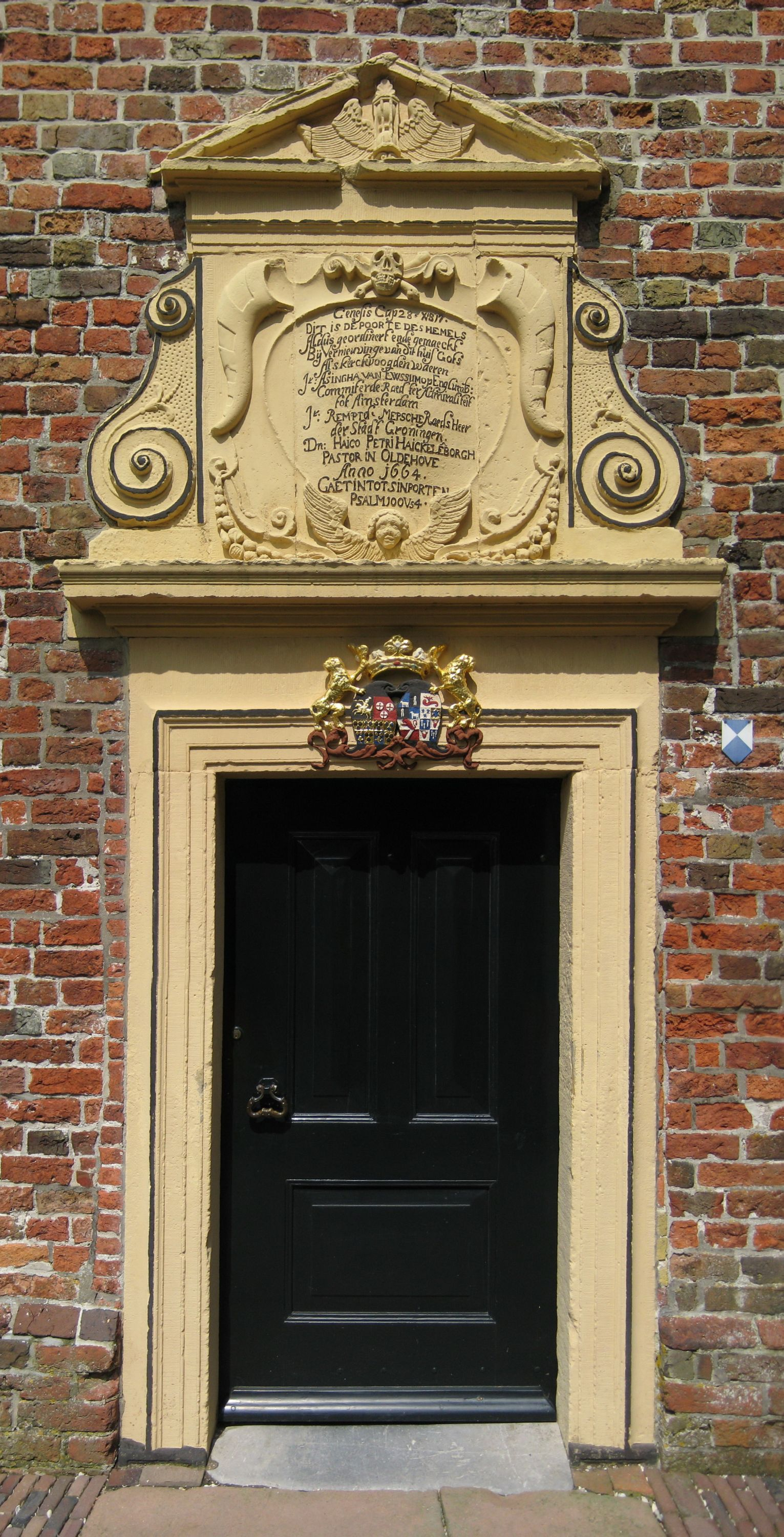 The entrance to the Church of Oldehove, a village in the Dutch province of GroningenFrysk: De yngong fan de tsjerke fan Oldehove, Grinslân